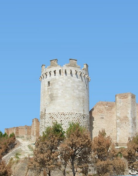 Lucera, castello svevo picture taken by user:Idéfix, july 2005